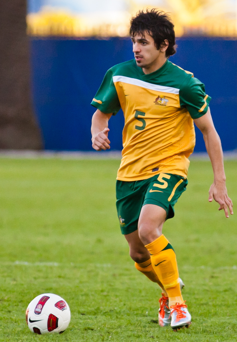 Aziz Behich playing for the Australian Olympic Football team against Yemen in 2011 at Gosford, New South Wales.